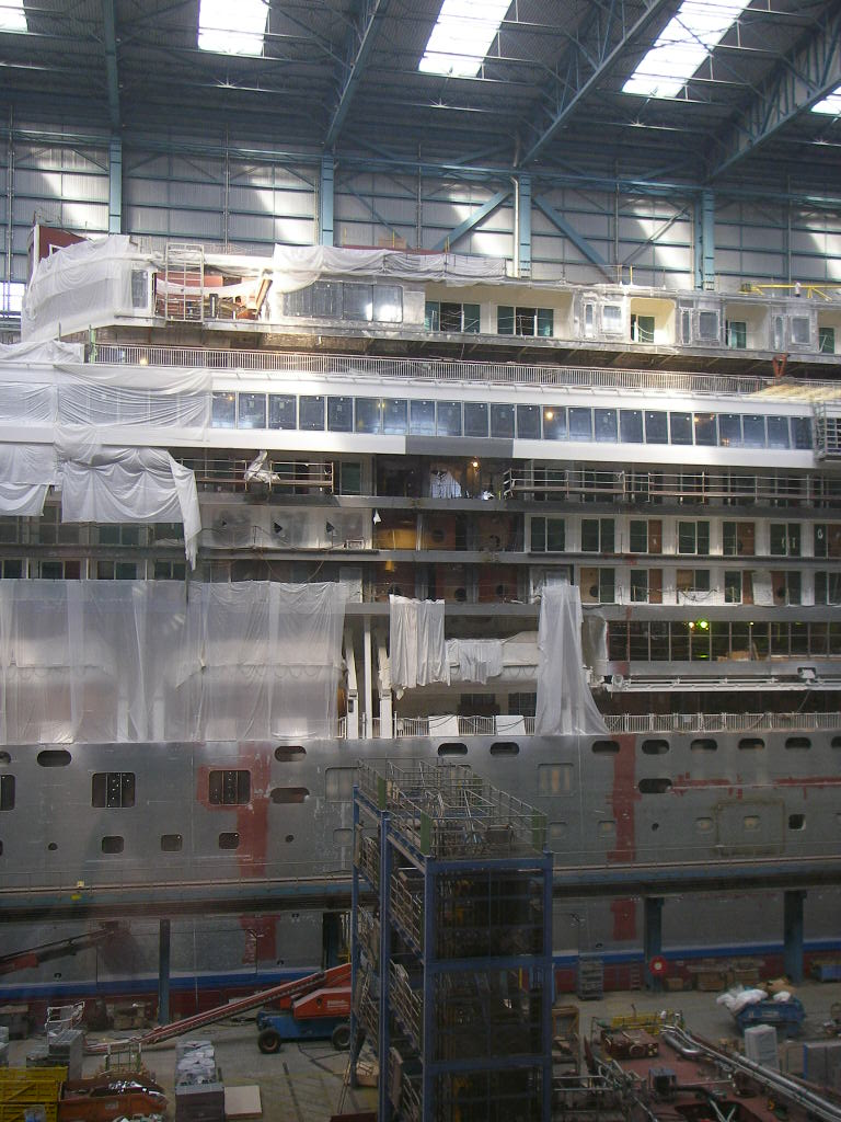 Cruise Ship NORWEGIAN PEARL, work in progress at meyer werft, Papenburg, Germany IMO Number: 9342281 MMSI Number: 309653000 Callsign: C6VG7 Length: 294 m Beam: 32 m own picture taken by Alraune (Volker Schaurich) on 13.08.2006